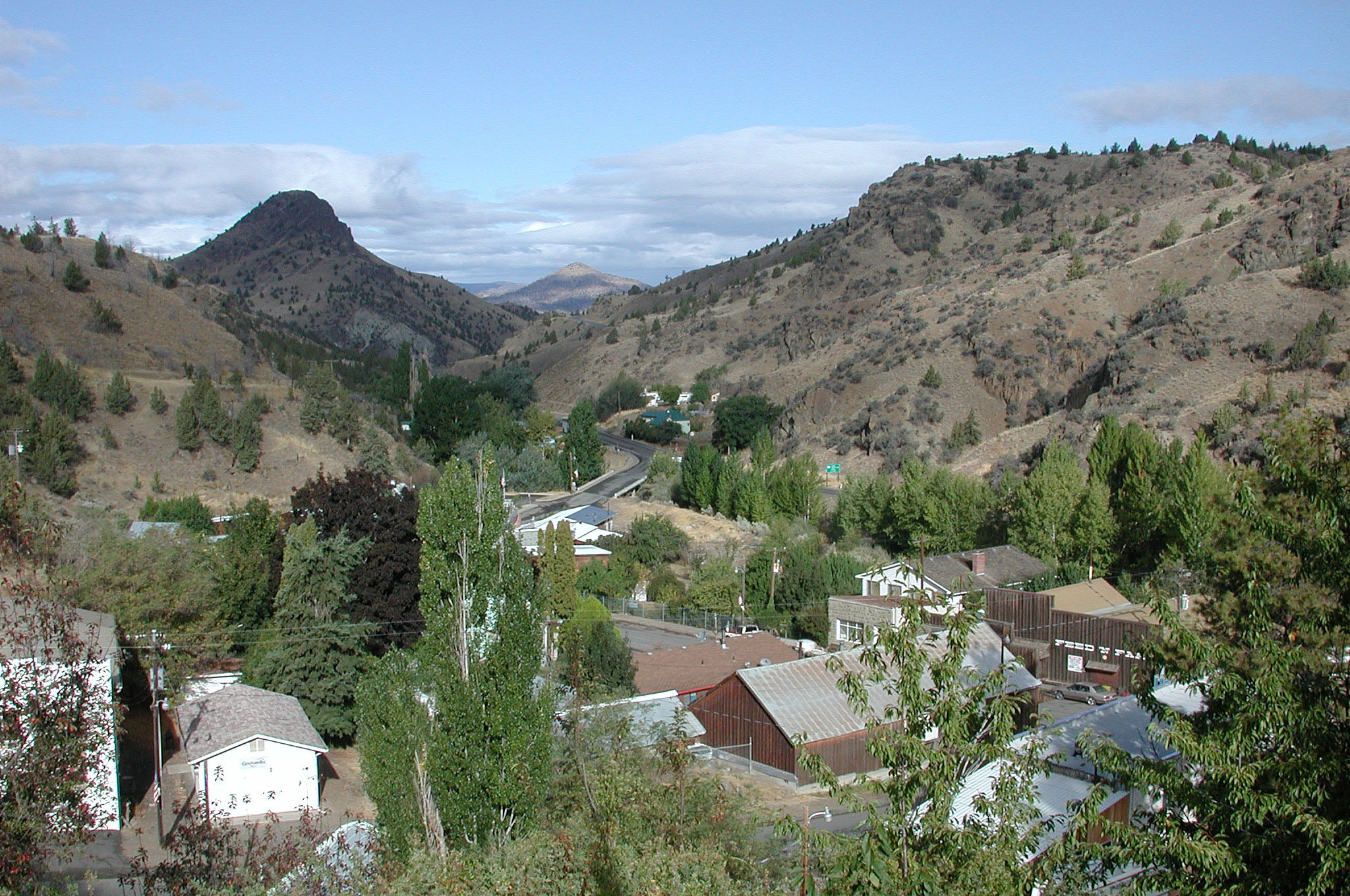 View of downtown Mitchell, Oregon, from Rosenbaum Street looking northwest. Rosenbaum Street is on the heights above Main Street, which crosses Bridge Creek (hidden by trees) and meets U.S. Route 26 just beyond the bridge.